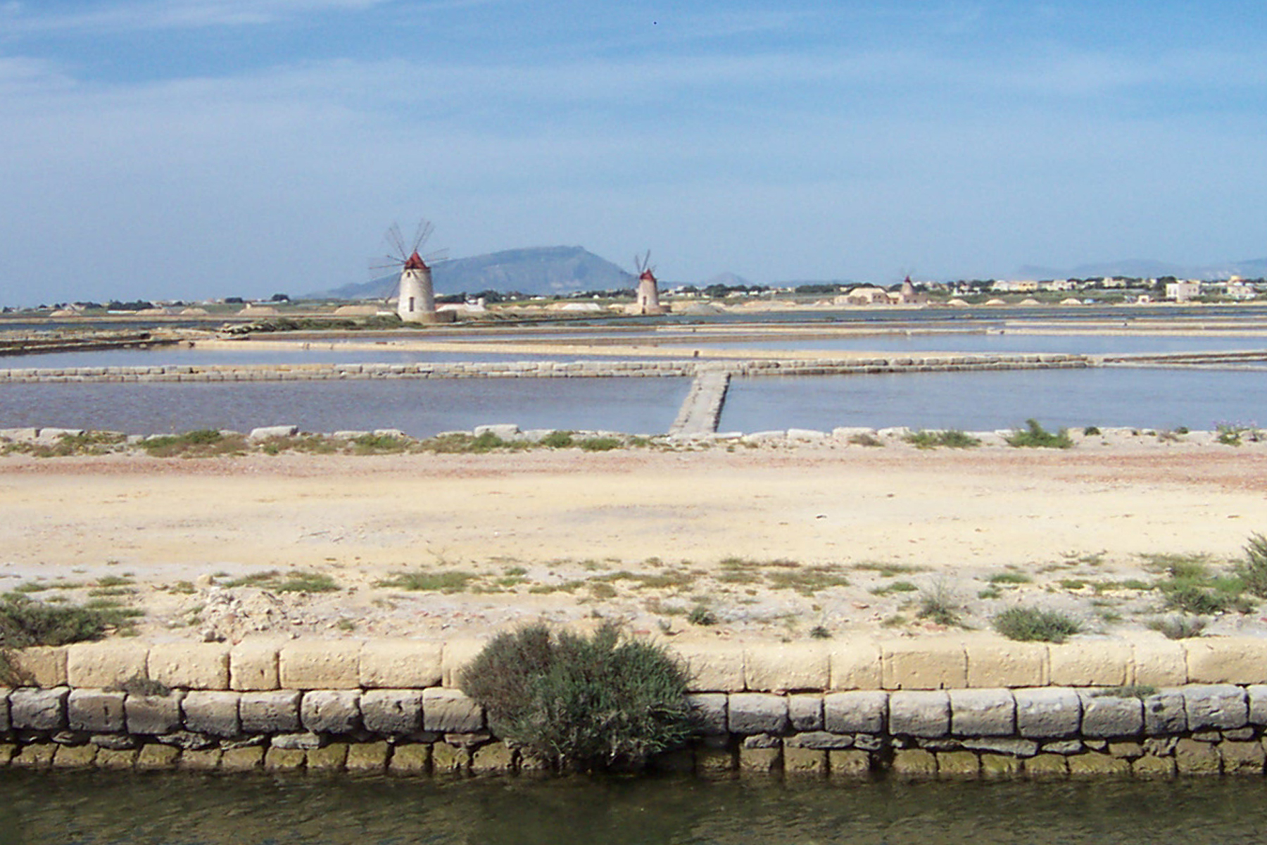 Salt flat in Marsala - Mozia, Sicily.